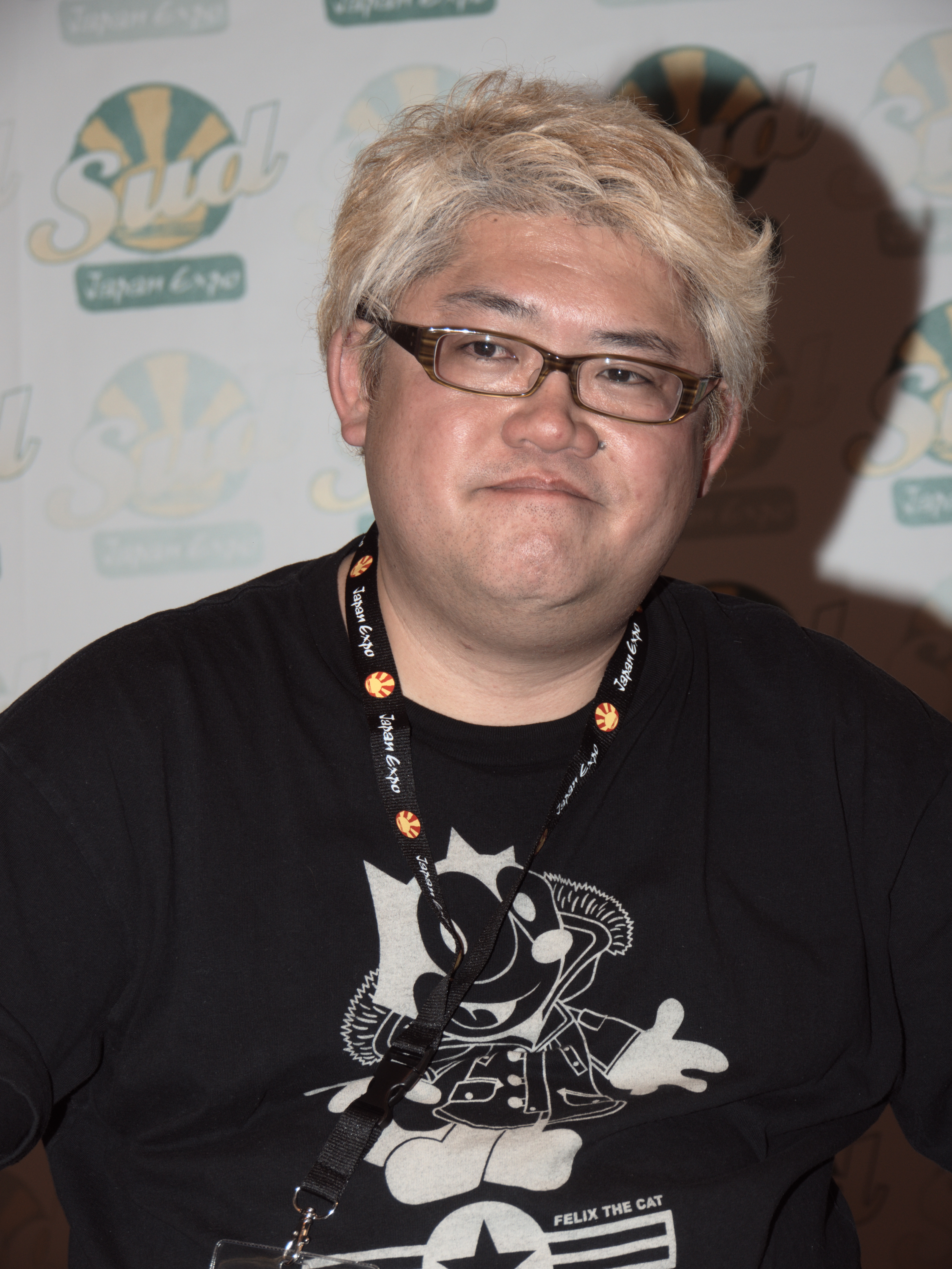 Japan Expo Festival, 3rd edition, 2011